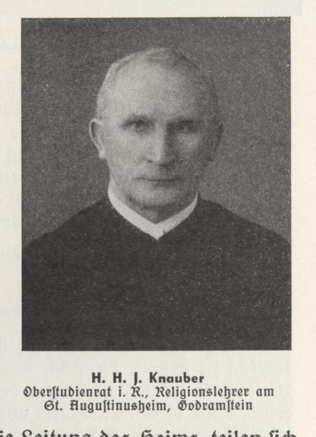 Jakob Knauber, prelate and catholic priest